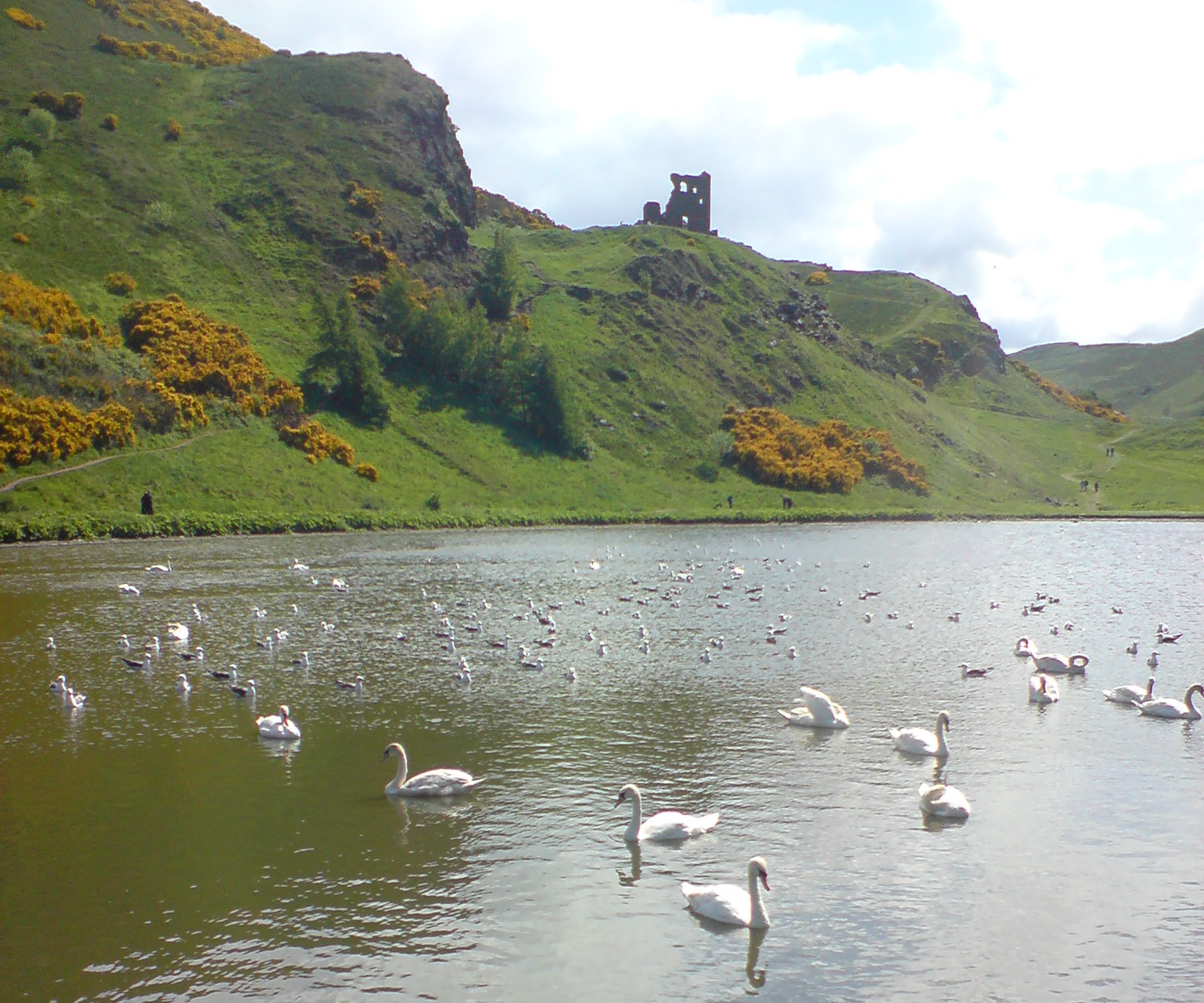 View over St Margaret's Loch from the north side.